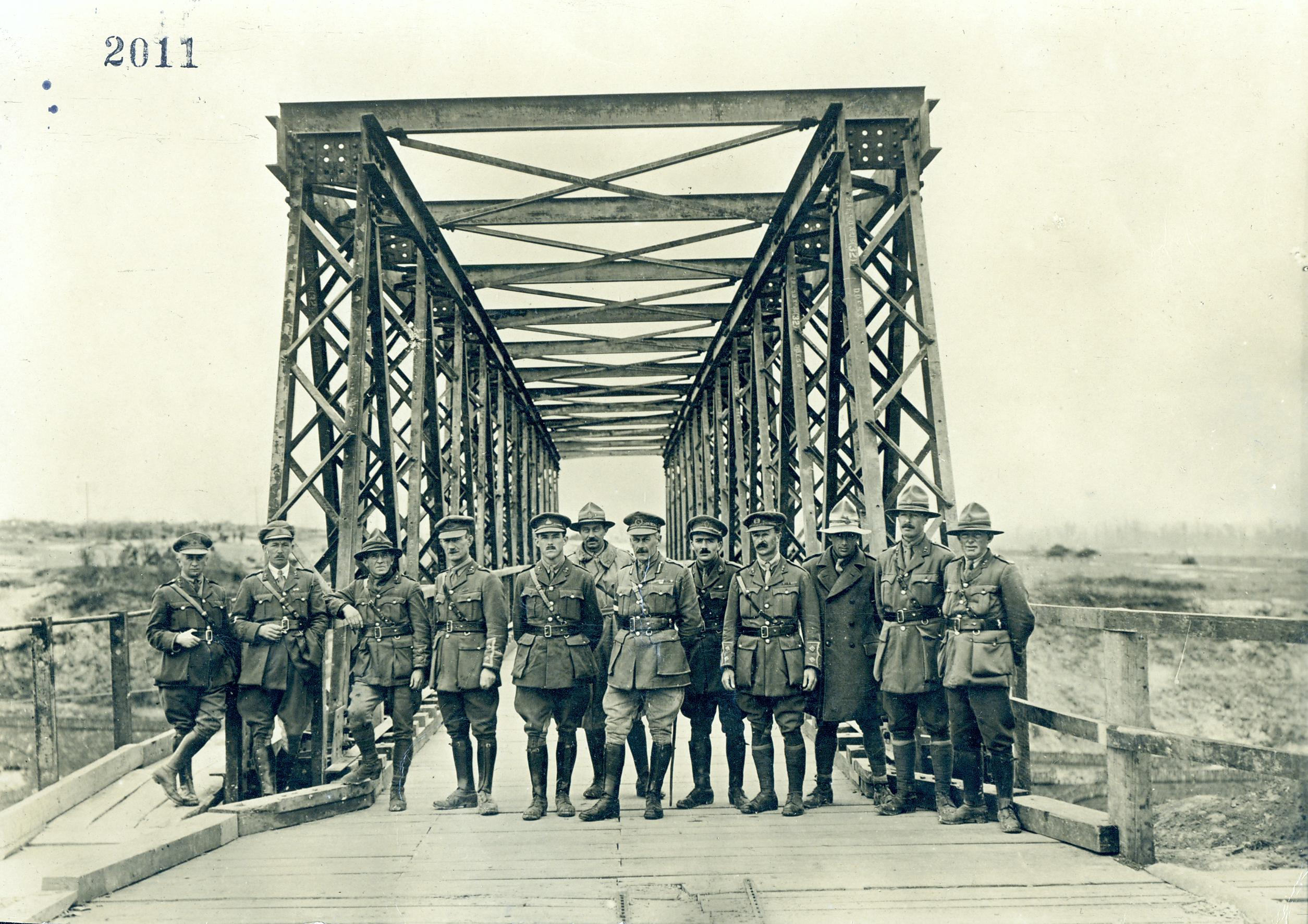 Officers of the NZ (Engineers) Tunnelling Company on the Canal du Nord Bridge, Hermies-Havrincourt Road, near Bapaume, France. Built by the NZ Tunnellers in October 1918. The photo is from the October Unit War Diary of 1918. The Unit War Diaries of the NZ (Engineers) Tunnelling Company are digitised and available on Archway: The digitised unit war diaries can be found by clicking the records tab from this link. Archives New Zealand Reference: WA10/3 ZMR 6/7/4